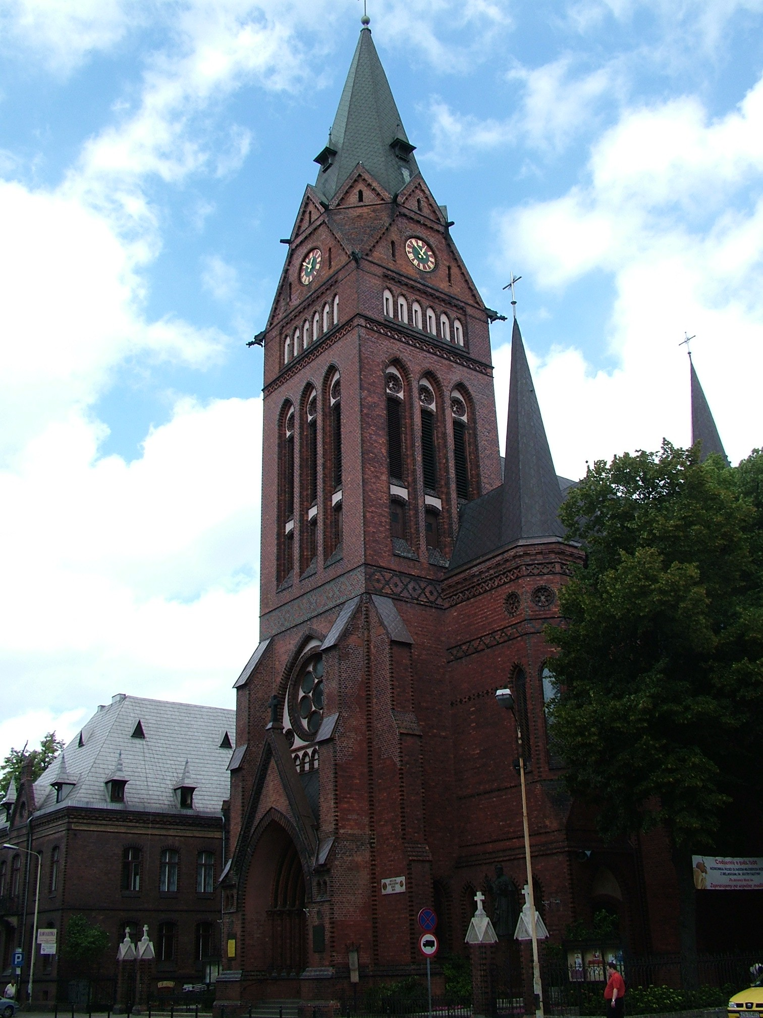 Church of St.John, Szczecin